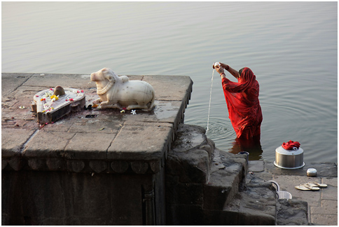 A local woman, beginning her day, offering puja (pooja) to sun deity. A shiva lingam and yoni, with nandi bull are on a platform. The woman is standing in narmada river. India 2009